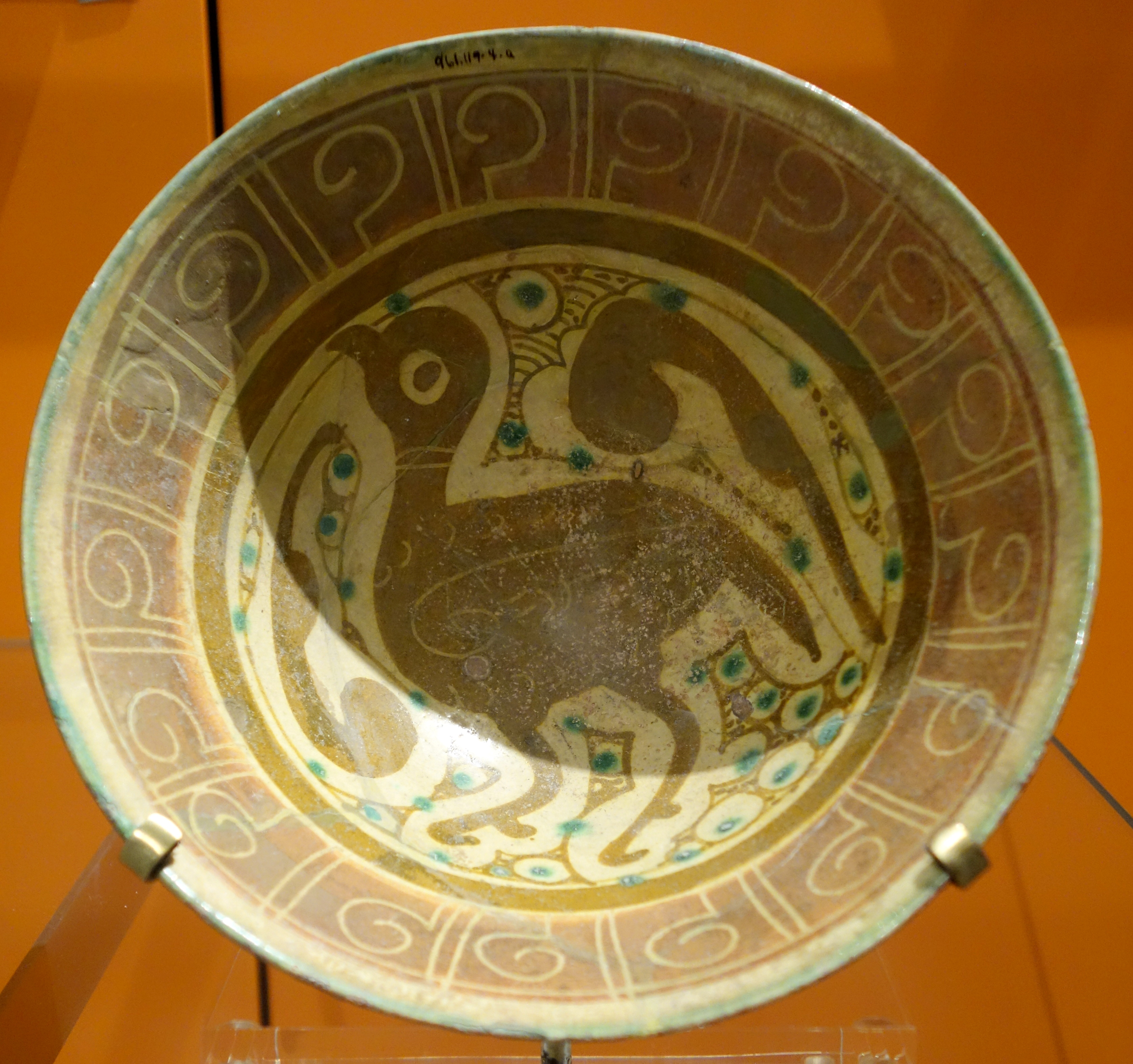 Exhibit in the Royal Ontario Museum, Toronto, Ontario, Canada. This work is old enough so that it is in the public domain.